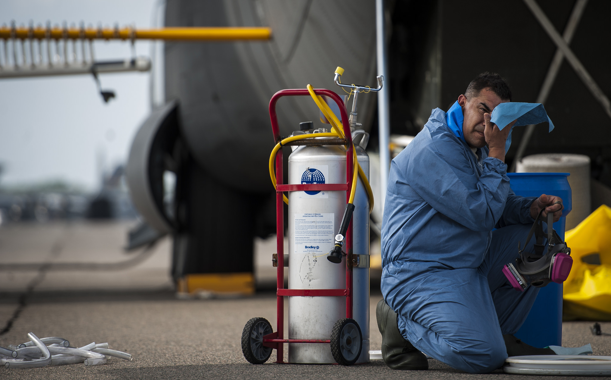 during a heat wave, an Airman from the 910th Airlift Wing at Youngstown Air Reserve Station, Ohio, wipes his face after removing his respiratory protection mask June 25, 2014, on Joint Base Charleston, S.C. The C-130 Hercules crew sprayed for mosquitoes at the base and maintains the Department of Defense's only large-area, fixed-wing aerial spray capability to control disease-carrying and pest insects. (U.S. Air Force photo by Airman 1st Class Clayton Cupit/Released)